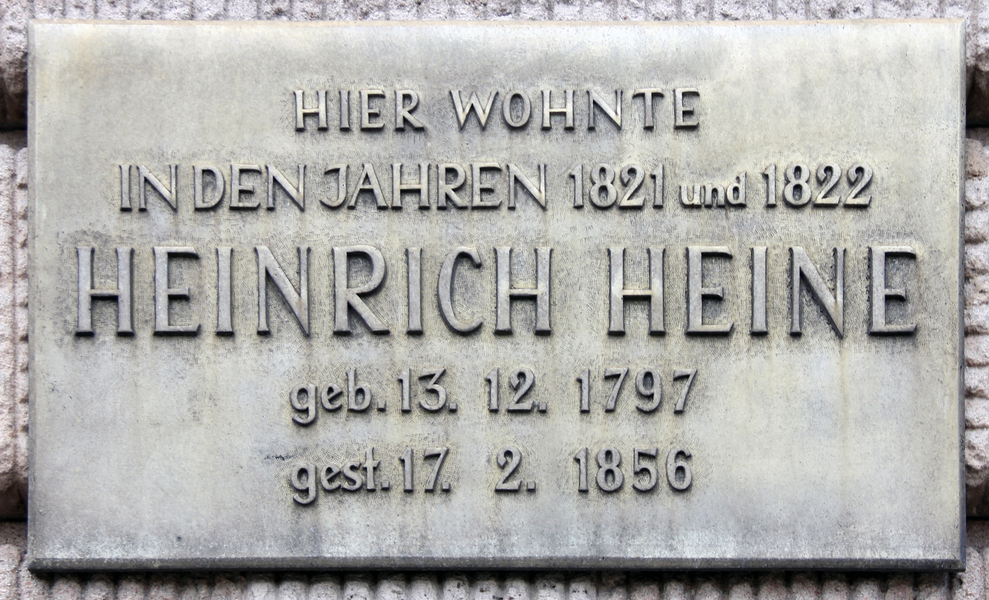 Memorial plaque, Heinrich Heine, Behrenstraße 12, Berlin-Mitte, Germany